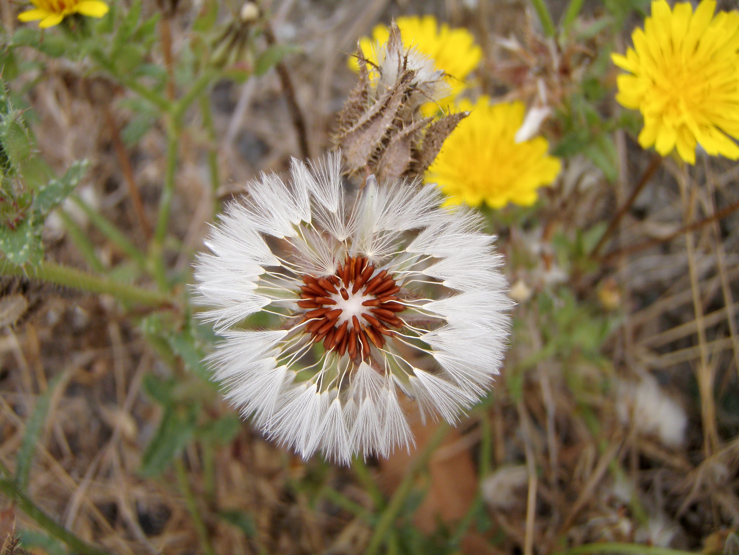 Picris echioidesin Pacifica, California